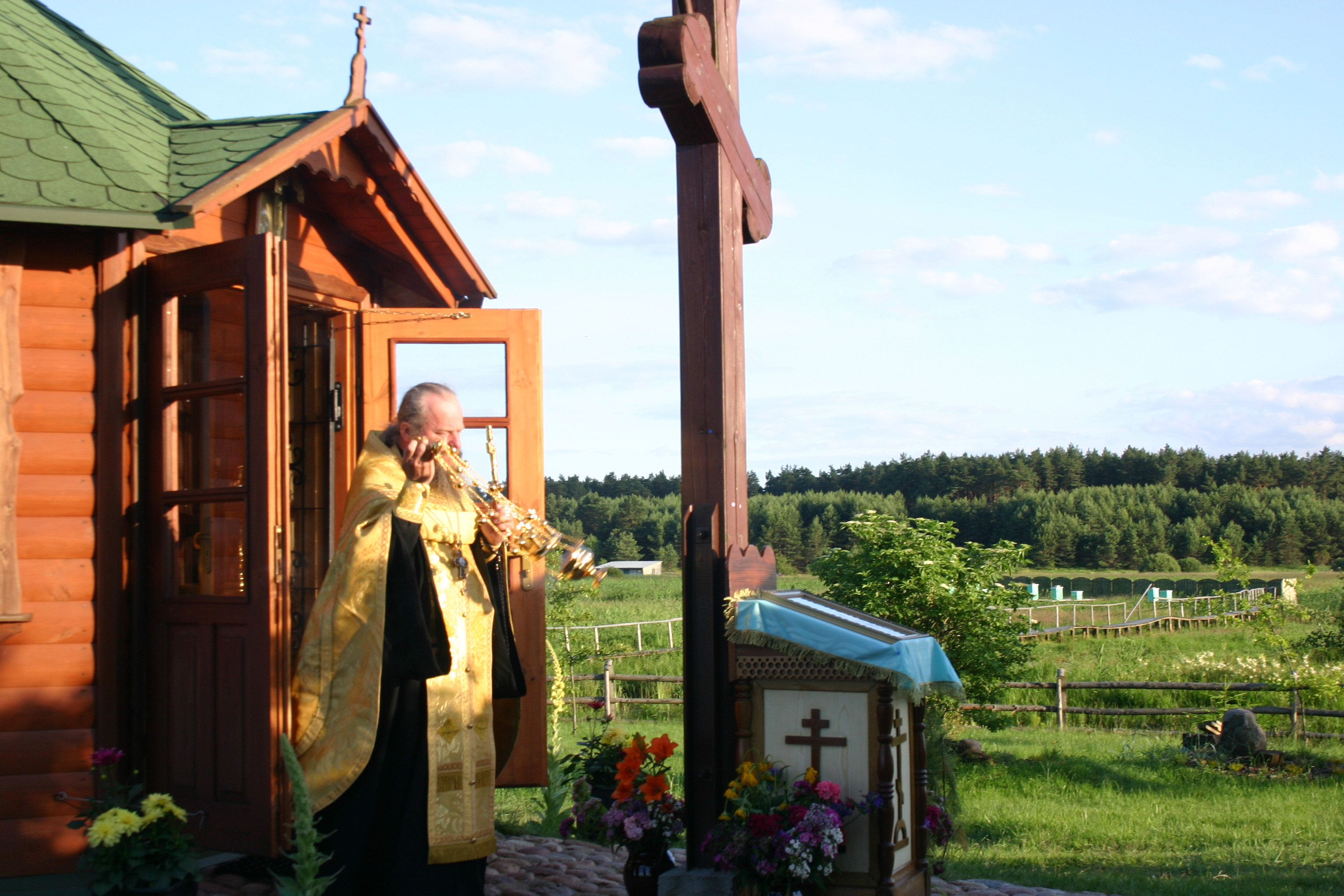 Archimandrite Gabriel celebrating Akatyst.